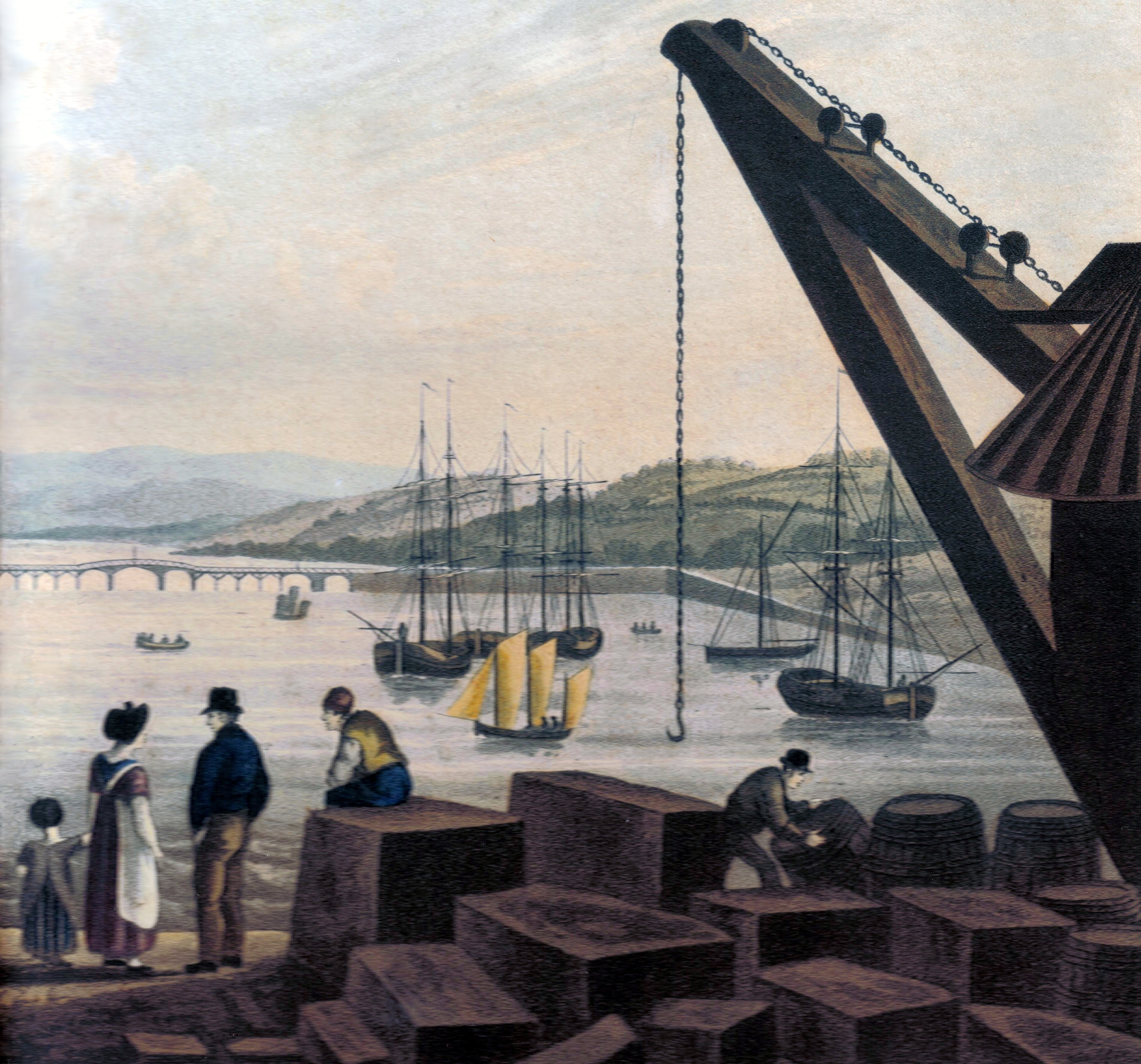 Teignmouth New Quay in 1827 showing blocks of cut Haytor granite awaiting transport. Shaldon bridge and the river Teign are in the background.